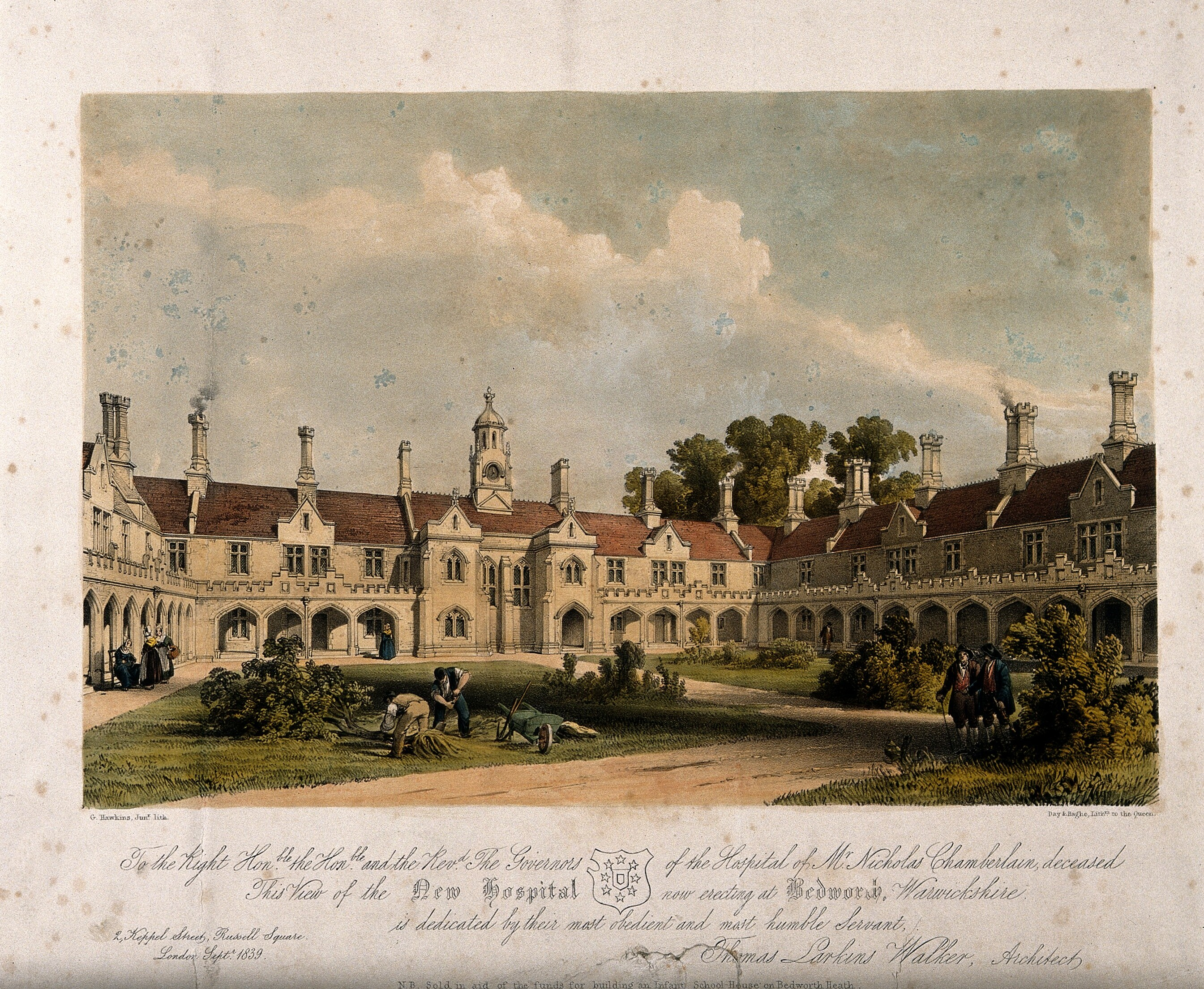 Courtyard view of the New hospital and grounds, Bedworth, Warwickshire. Coloured lithograph by G. Hawkins the younger, 1839. Iconographic Collections Keywords: George Hawkins; Nicholas Chamberlain; New Hospital (Bedworth, England); Thomas Larkins Walker